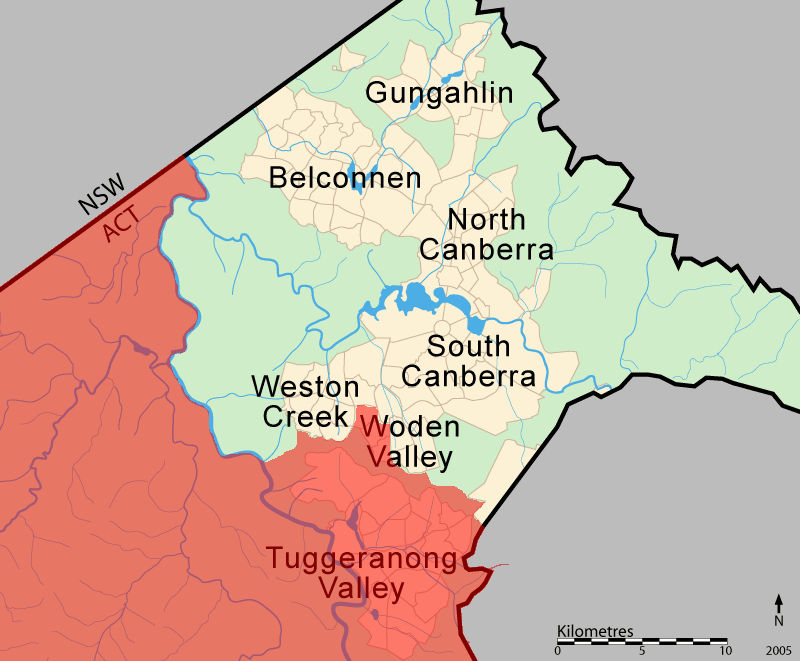 ACT electorate of Brindabella, as depicted at [1]